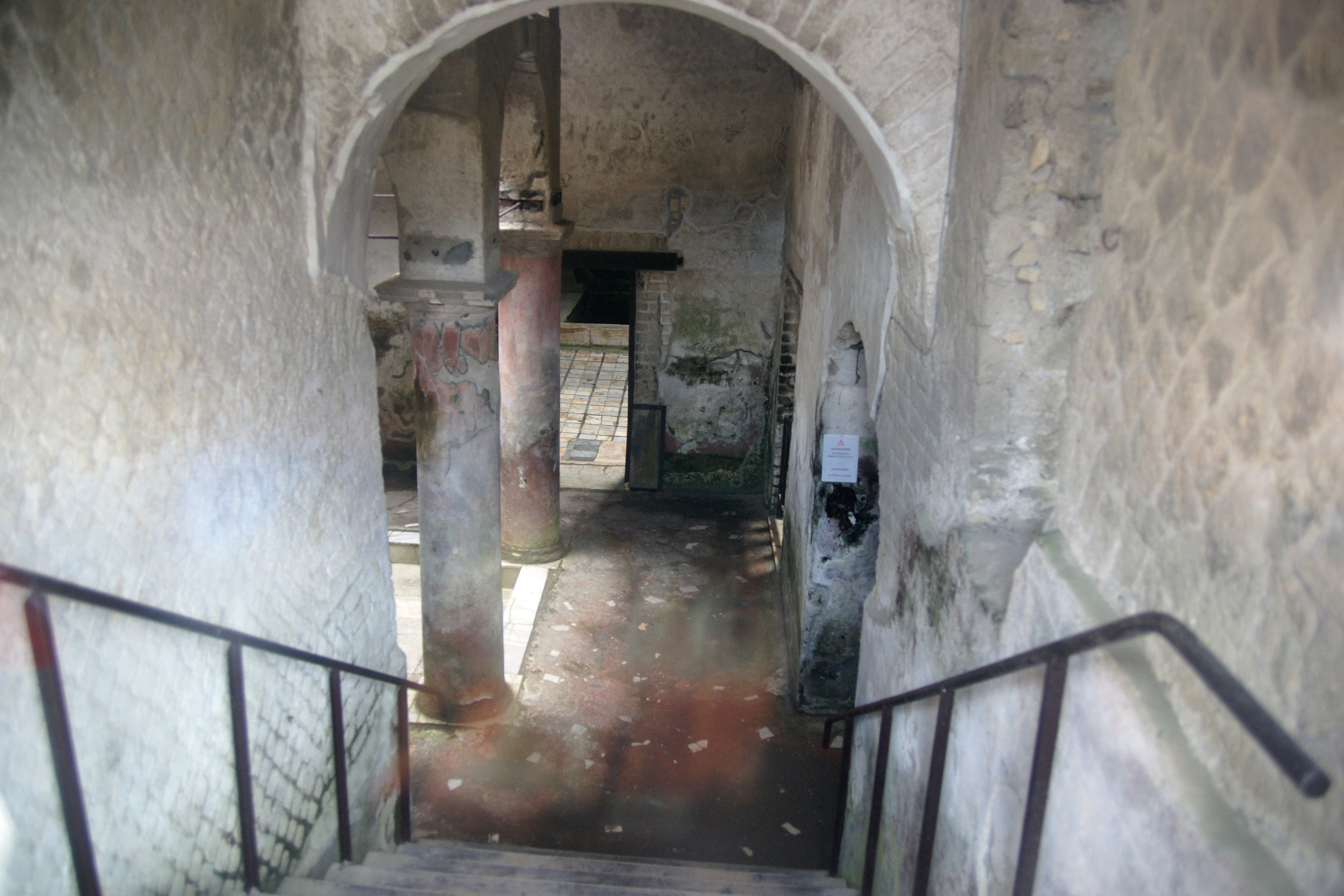 Herculaneum: Suburbane Thermen